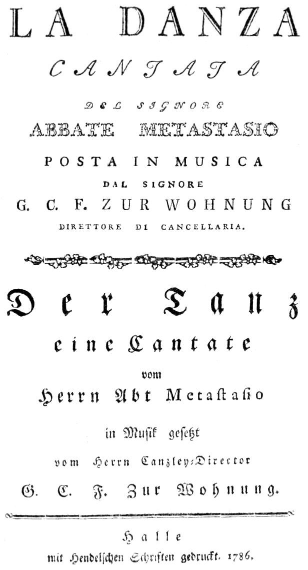 G. C. F. zur Wohnung - La danza - titlepage of the libretto - Halle 1786